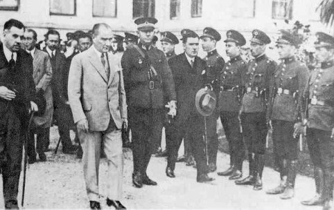 Mustafa Kemal Atatürk is leaving Dolmabahçe Palace with Kazım Özalp, 30 September 1929. Kemal Atatürk (or alternatively written as Kamâl Atatürk, Mustafa Kemal Pasha until 1934, commonly referred to as Mustafa Kemal Atatürk; 1881 – 10 November 1938) was a Turkish field marshal, revolutionary statesman, author, and the founding father of the Republic of Turkey, serving as its first President from 1923 until his death in 1938. He undertook sweeping progressive reforms, which modernized Turkey into a secular, industrial nation. Ideologically a secularist and nationalist, his policies and theories became known as Kemalism. Due to his military and political accomplishments, Atatürk is regarded as one of the most important political leaders of the 20th century.